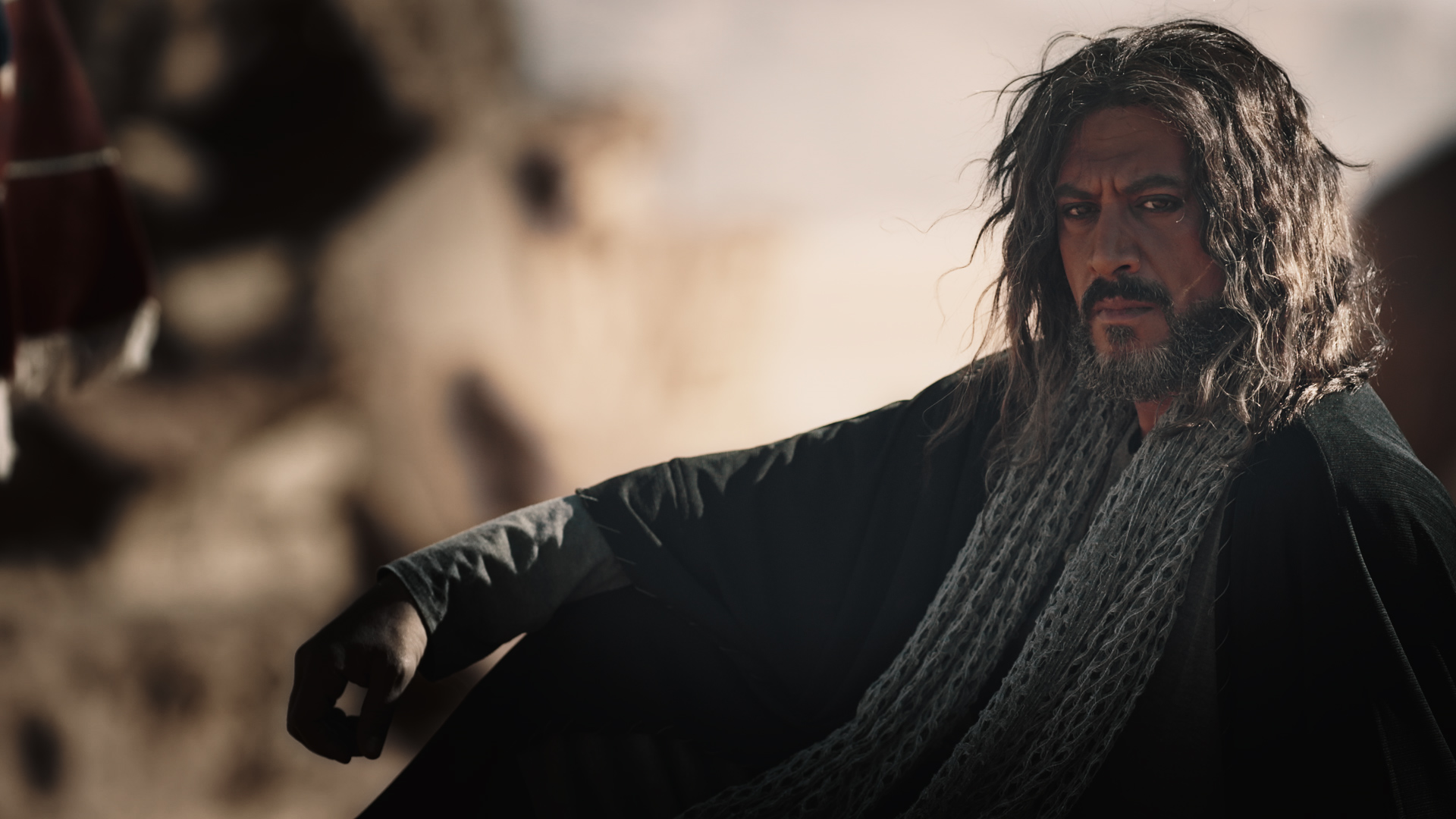 الممثل الأردني الراحل ياسر المصري, صورة من مسلسل مالك بن الريب